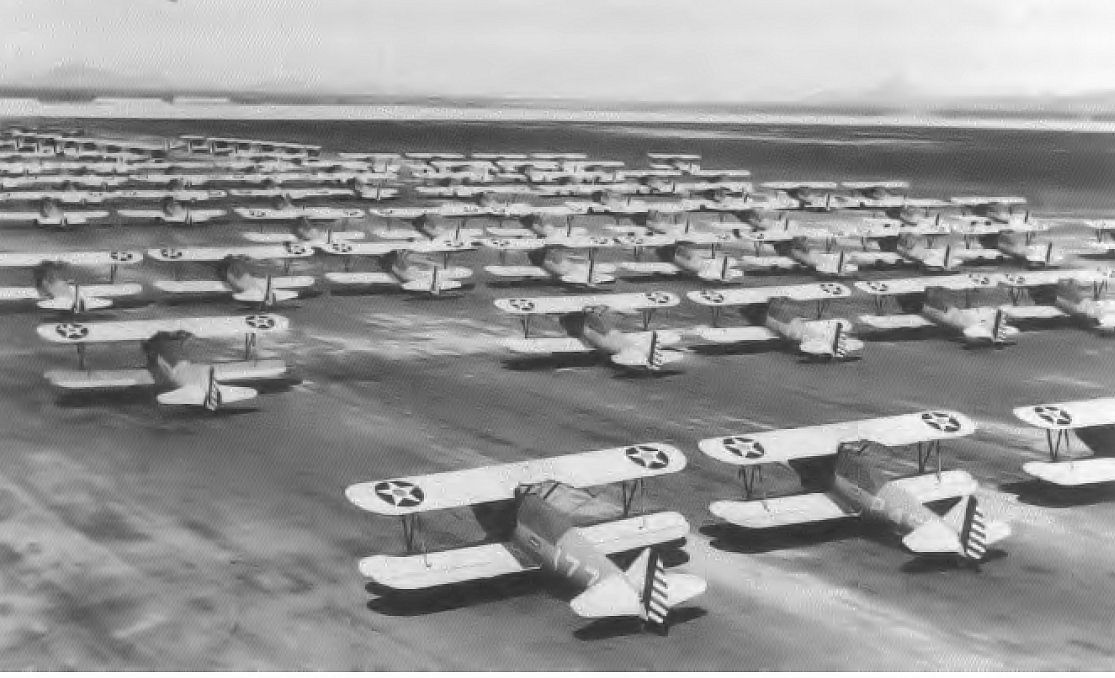 A field of Boeing PT-13s [not Consolidated PT-11s] stands ready for trainees